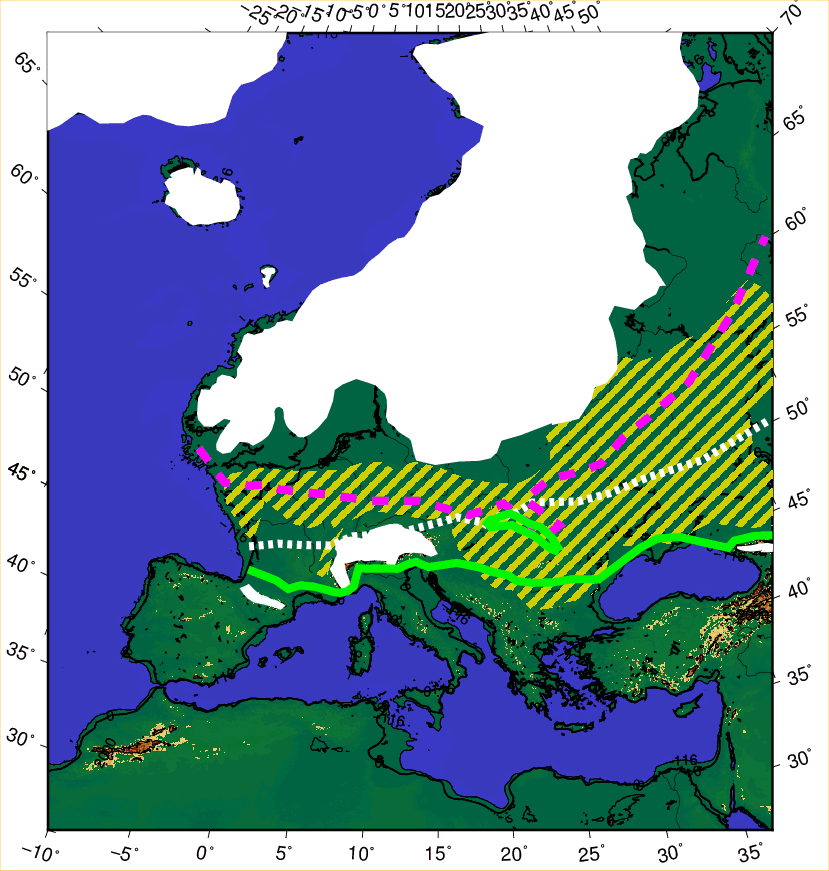 Europe vegetation during last glacial maximum. White ice, grey tundra or steppic tundra, green temperate or subtropic forest, steppe, desert or mountain. Yellow line encloses loess area. White line is permafrost limit, green line is forest limit.